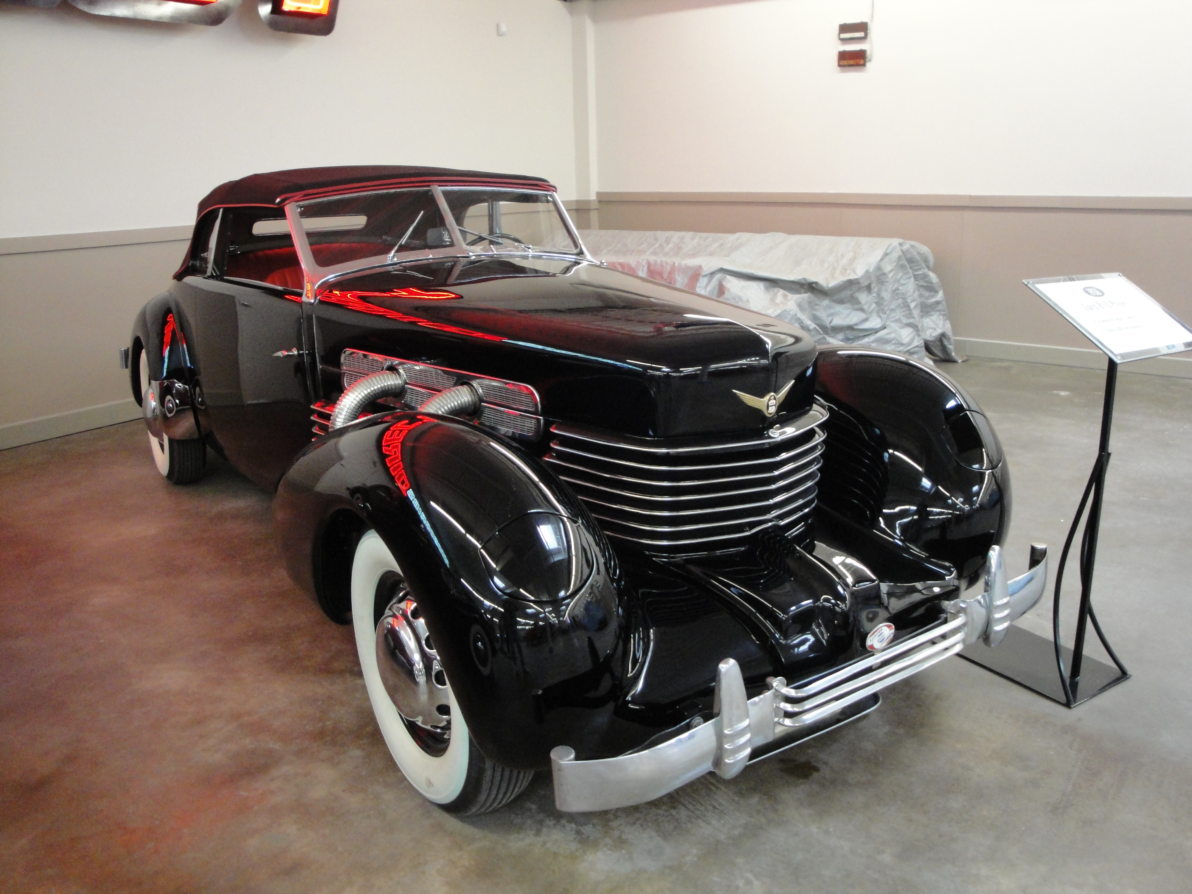 Lincoln Car Club meeting, October 2011